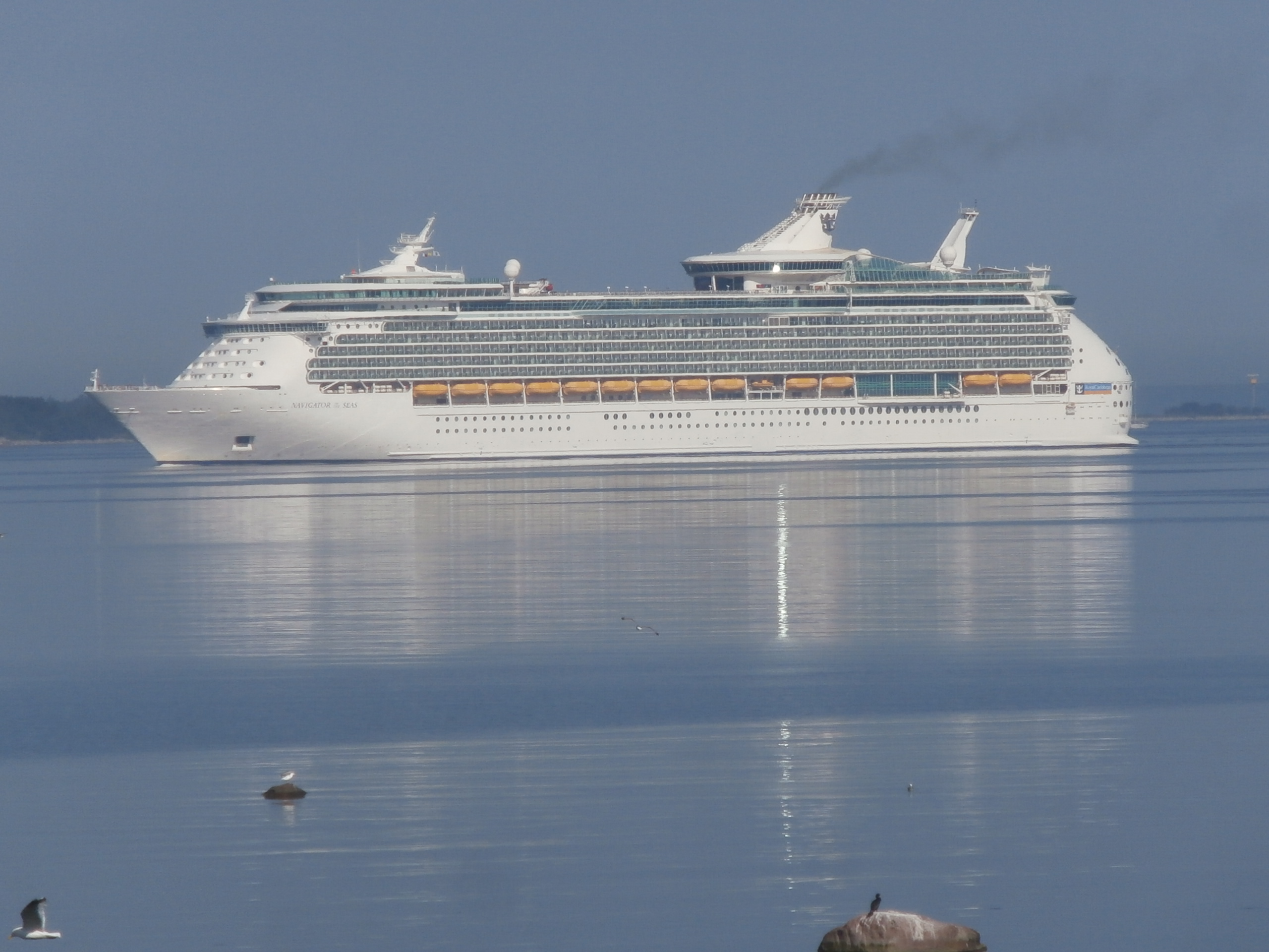 Navigator of the Seas arriving at Tallinn 21 June 2016